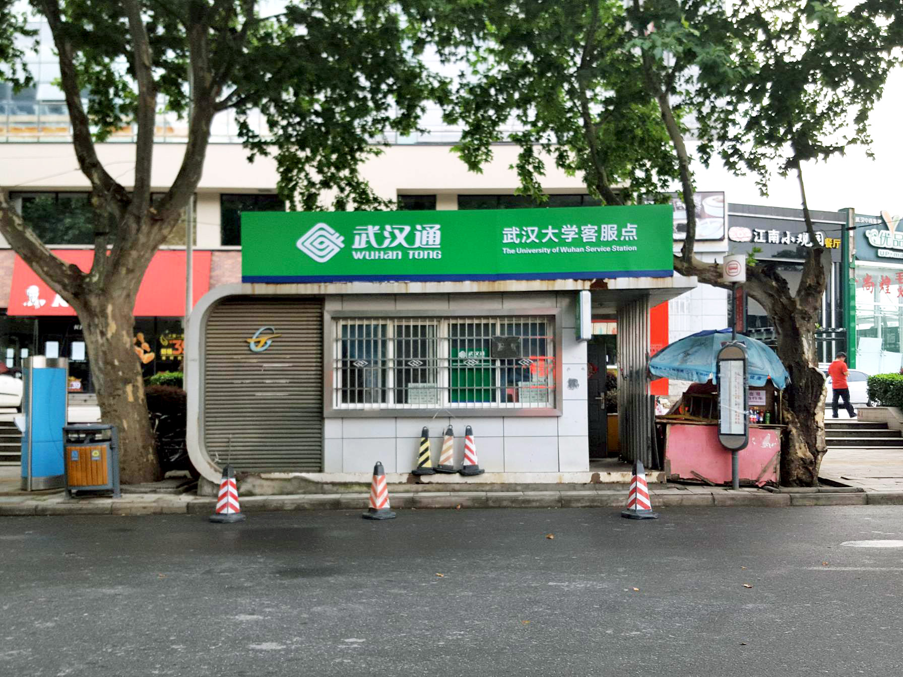 Wuhan Tong Customer Service Centre